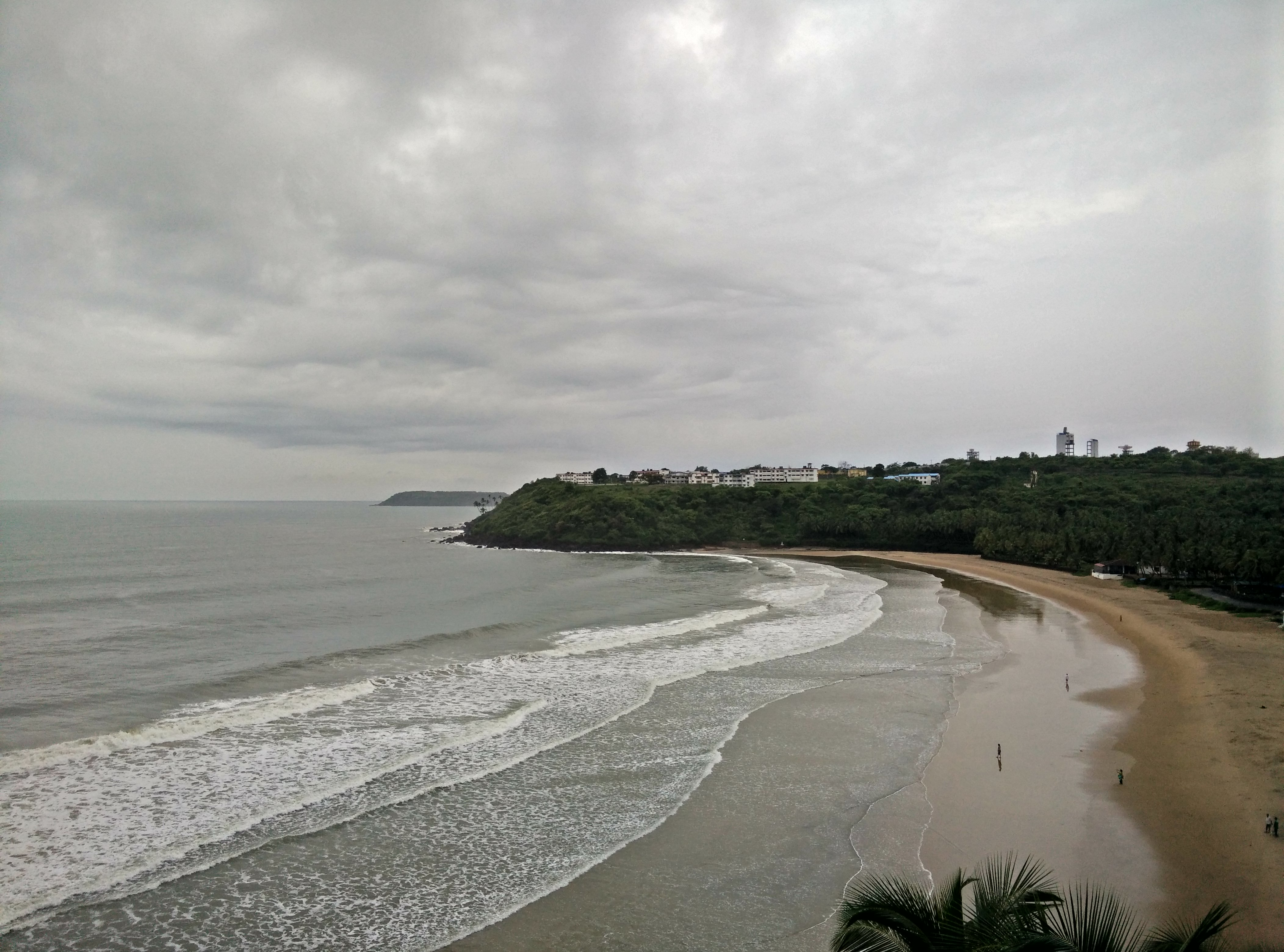 View of Bogmalo Beach, Goa